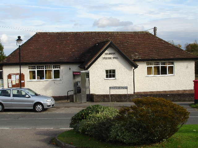 Studham Village Hall. On the corner of one of Studham's 3 commons and just across the road from the pub.